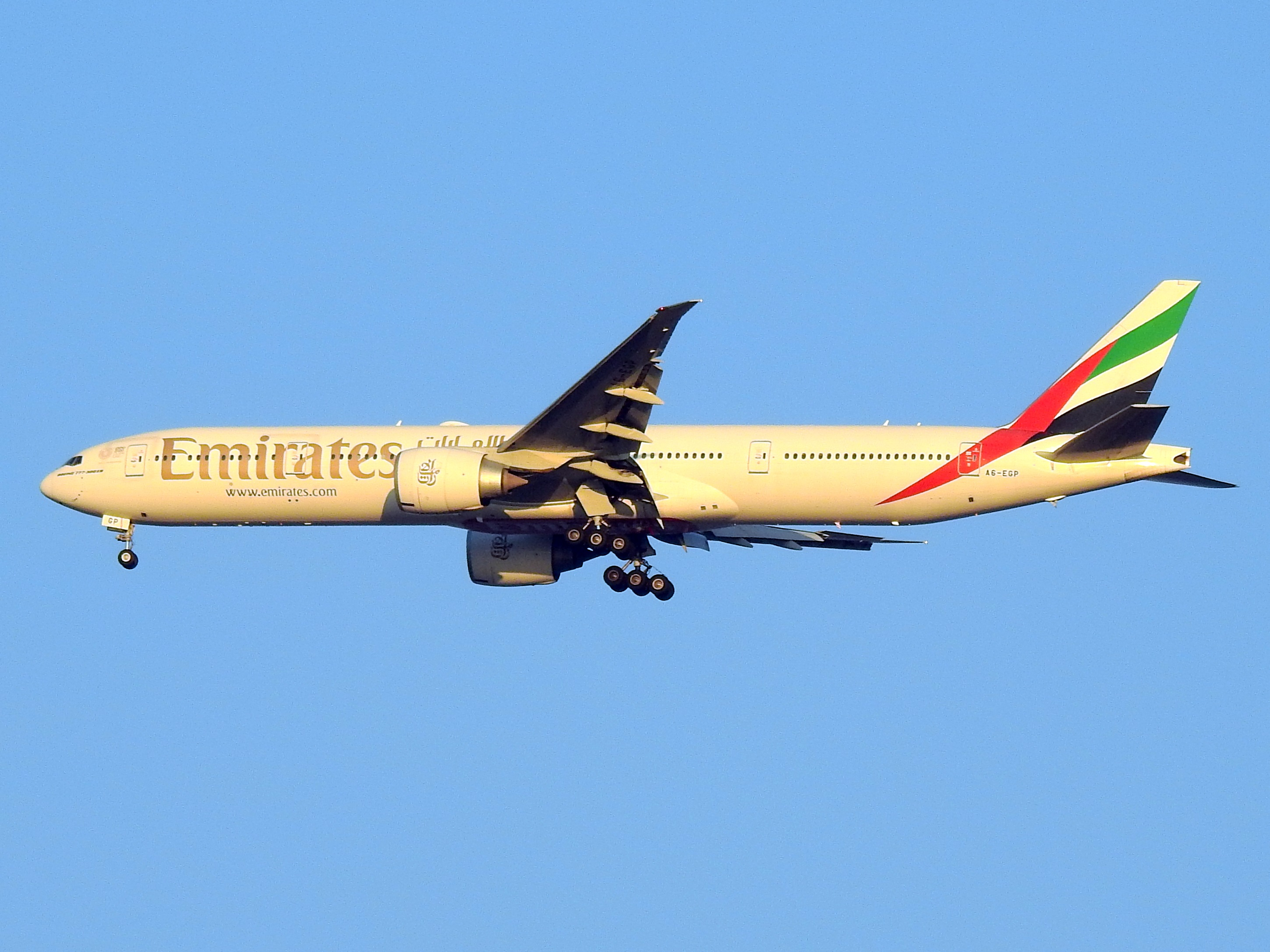 Boeing 777 of Emirates near Lisbon Airport (A6-EGP). April 2019.